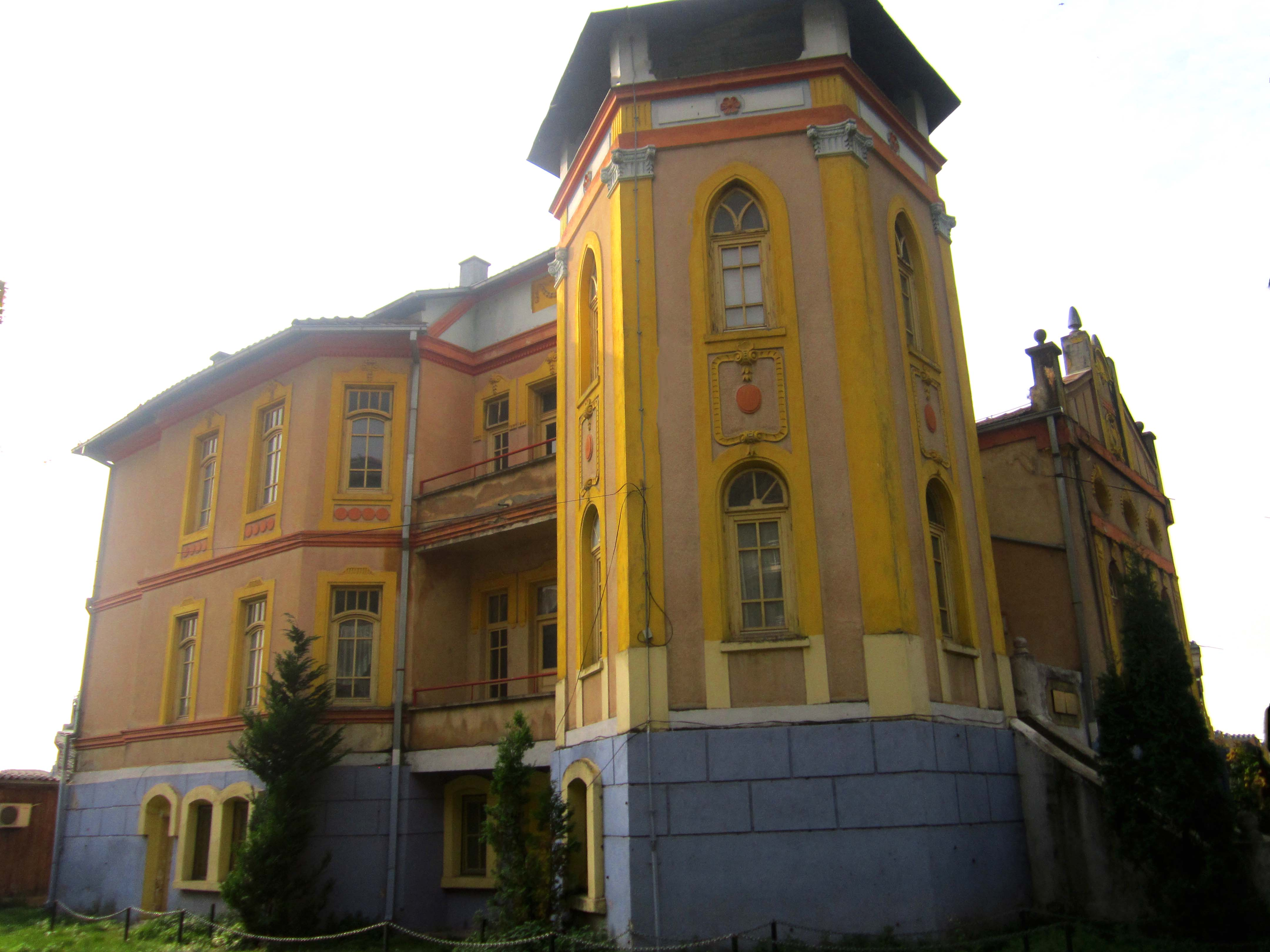 Alimbeg house is civilian healthcare facility or historic house which was earlier hospital in Tetovo